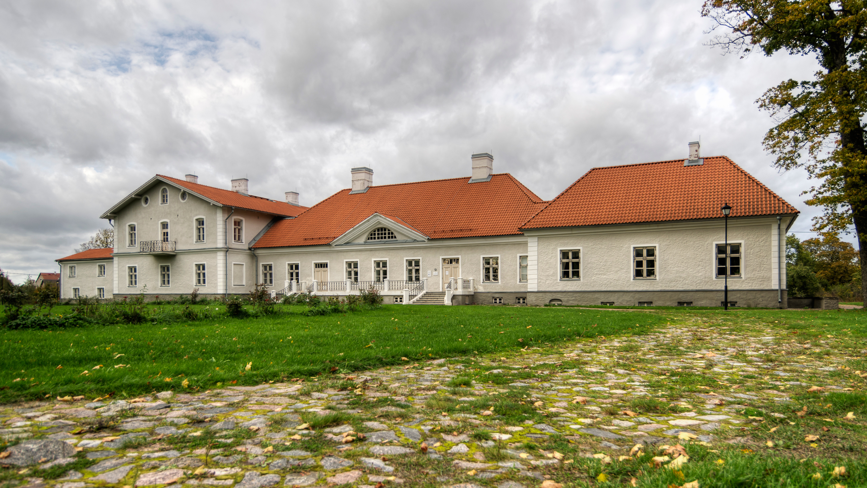 Kukruse manor house, front view